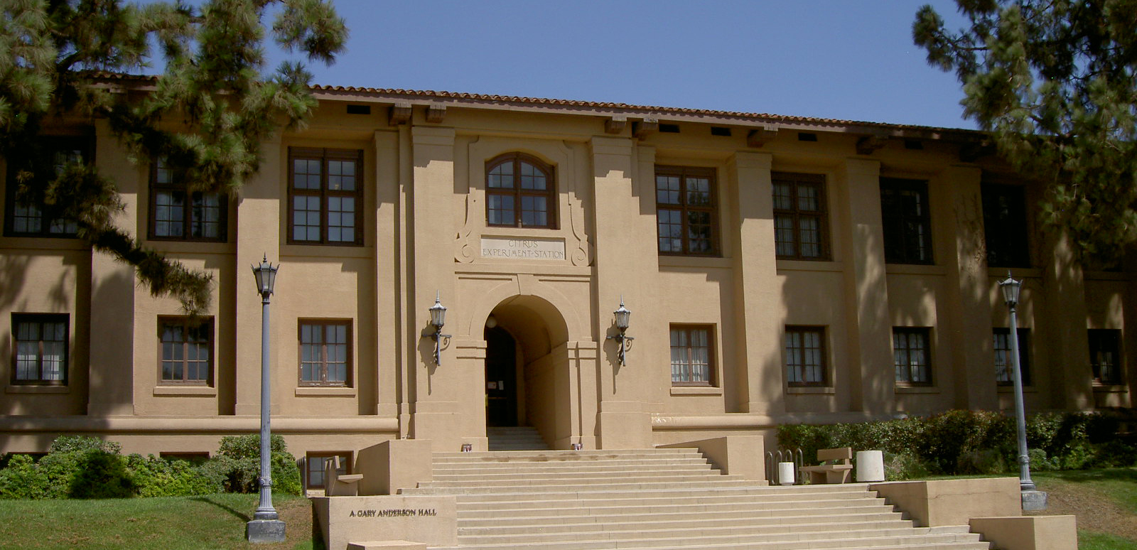 A_Gary_Anderson_Hall,_UCR